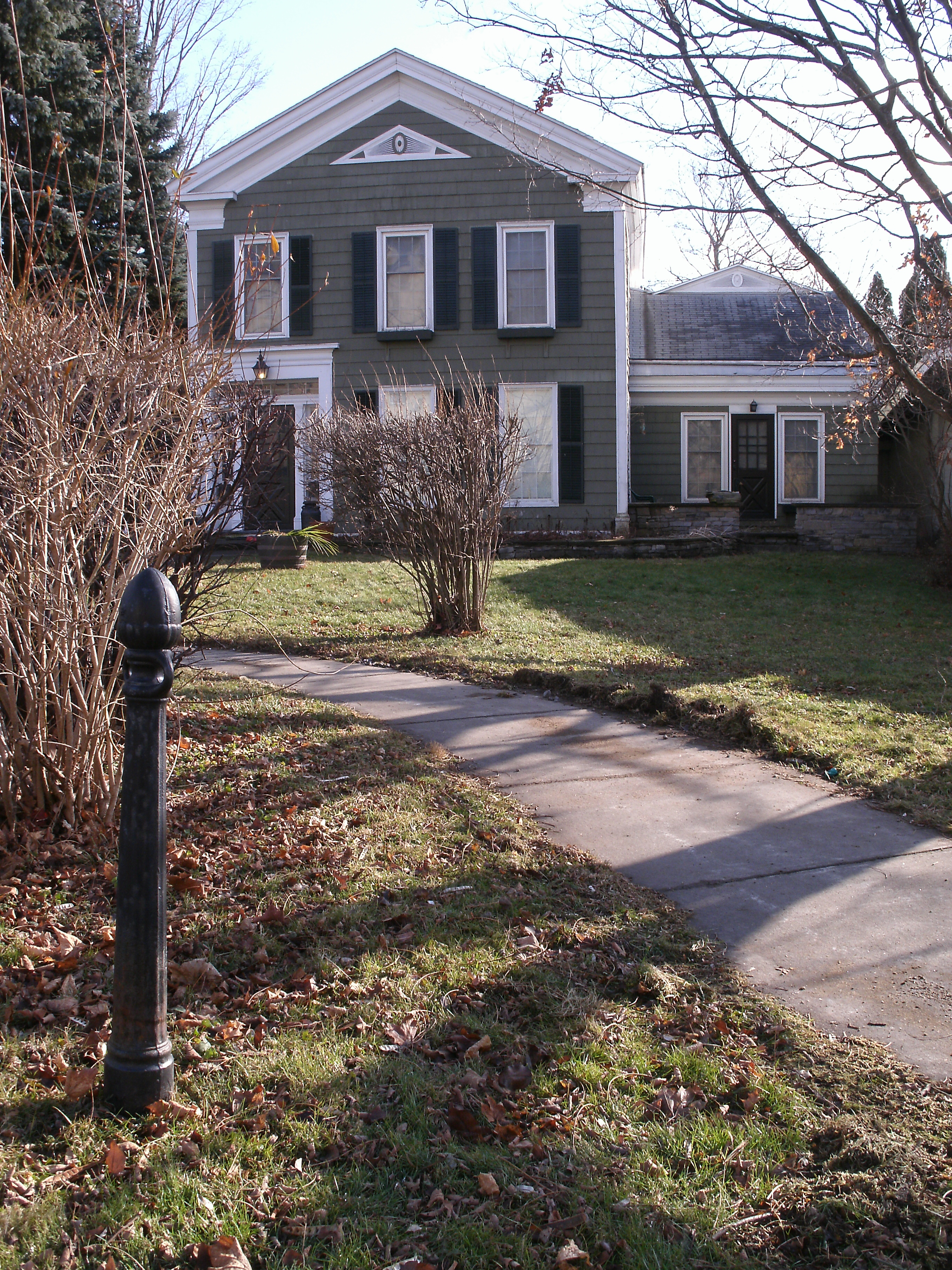 306 Seneca Street, in Manlius Village Historic District, in Manlius, New York. Historic hitching post in foreground.